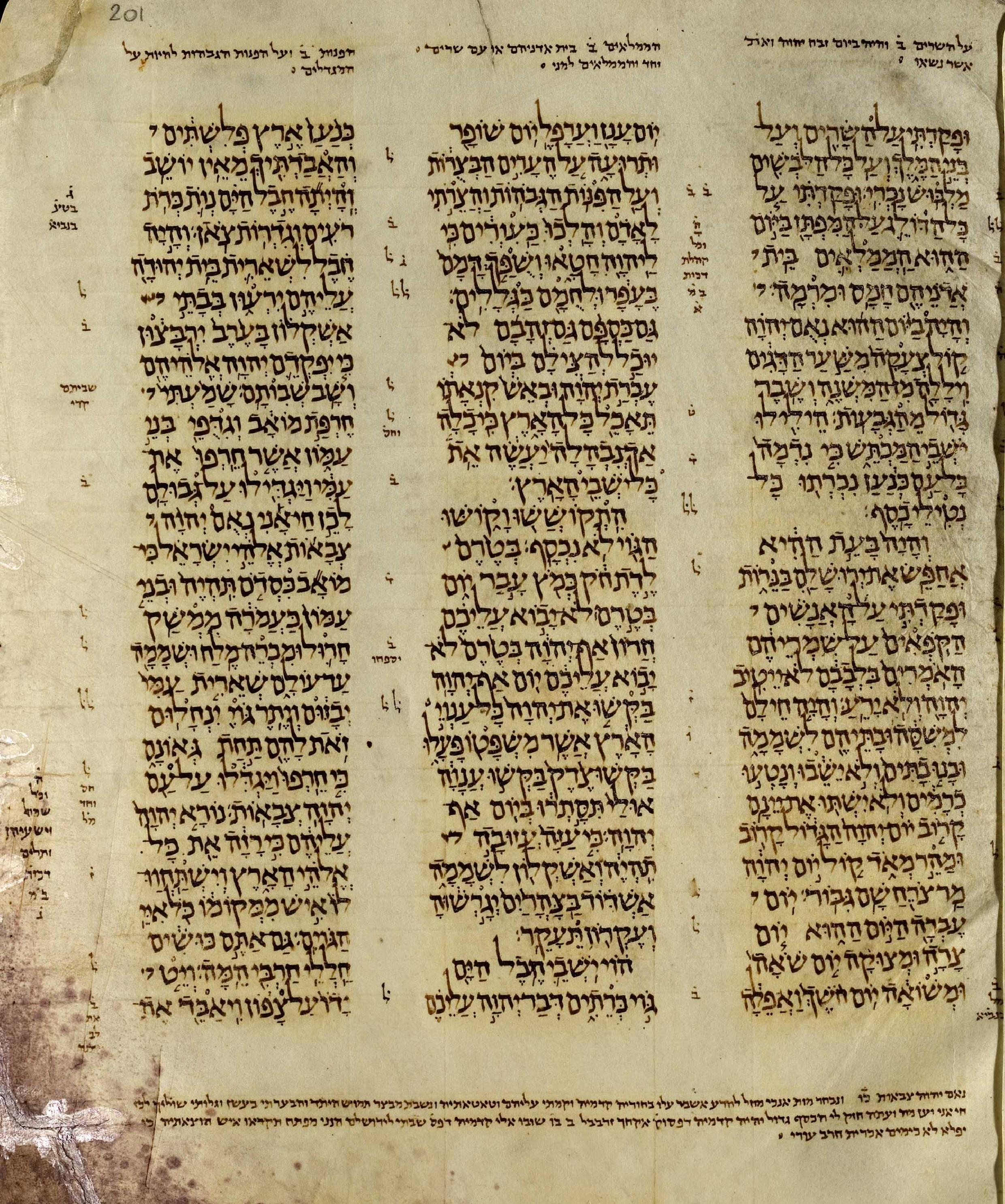 A high resolution scan of the Aleppo Codex. This file contains the Book of the Twelve Minor Prophets (the eighth book in Nevi'im). Unfortunately the high-resolution file only contains the last five extant folios of the book, which include parts of Zephaniah and Zechariah, and the entire text of Malachi.